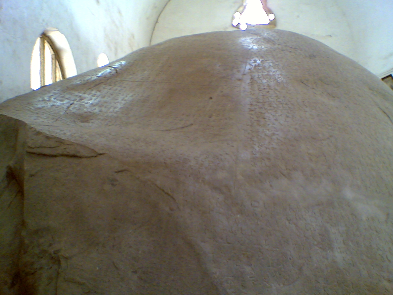 This image is of Ashoka's Rock edict at Junagadh. I have captured it when I visited Janagadh early 2007.